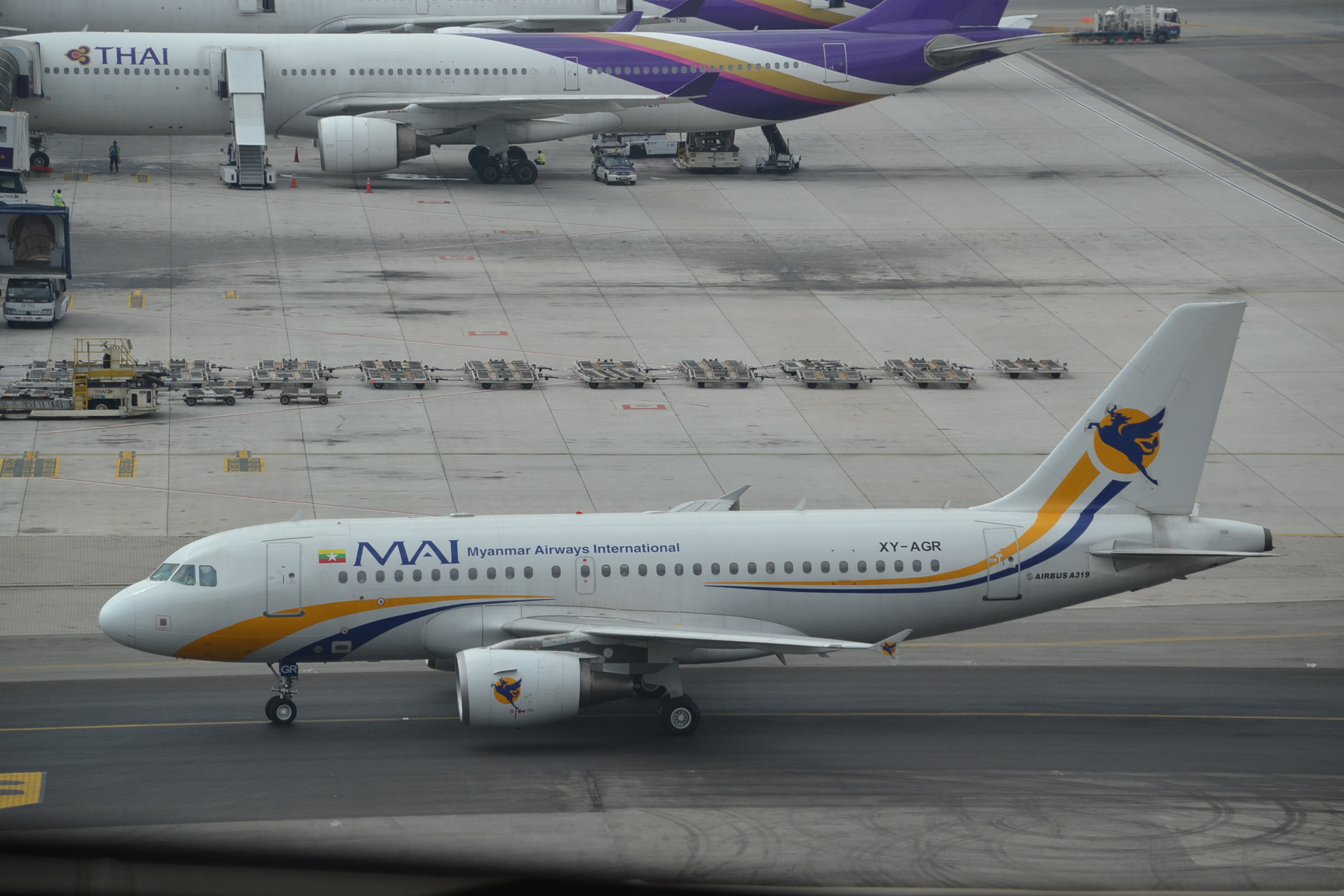 Airbus A319 of Myanmar Airways International at Bangkok-BKK, 17/02/14.